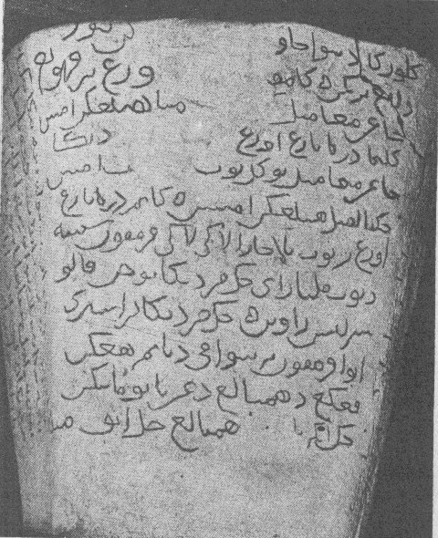 Terengganu stone inscription, Malaysia, side B